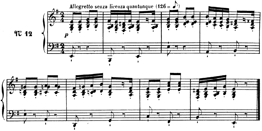 Theme of Charles-Valentin Alkan's Le festin d'Ésope, Op. 39 No. 12.